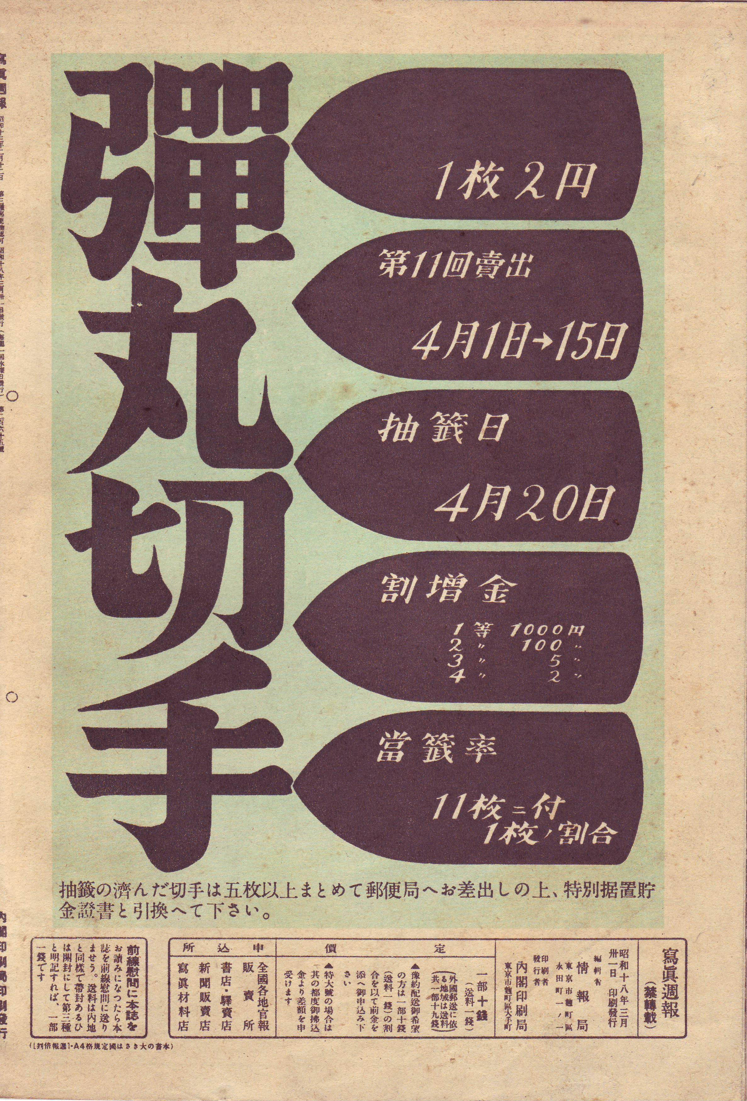 Advertisement of "Dangan Kitte" (One of Japanese War Bond).